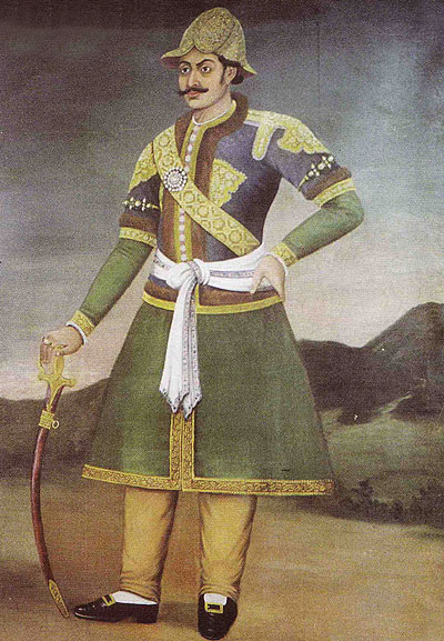 Painting of Bhimsen Thapa in National Museum of Nepal.